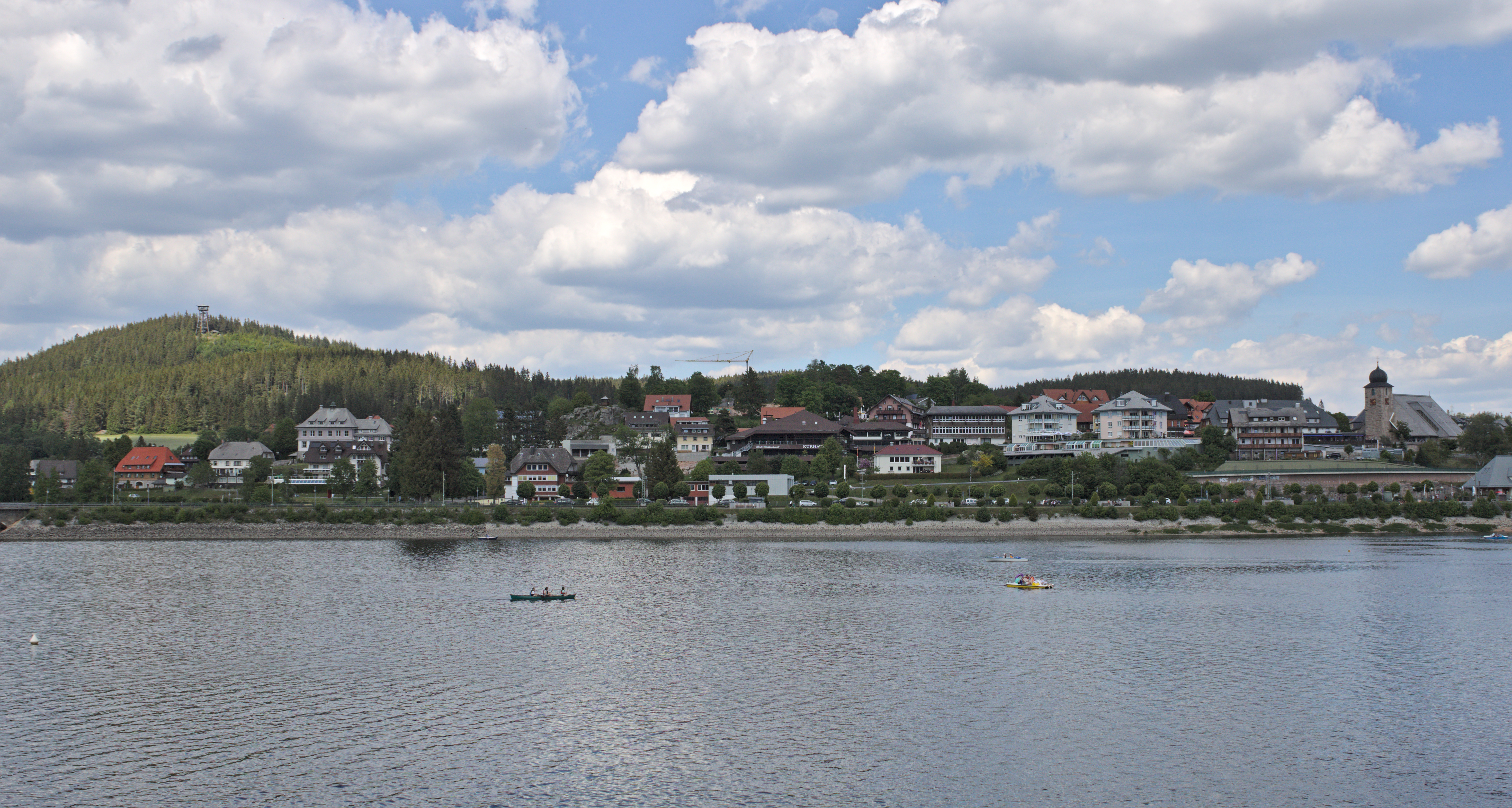 Schluchsee_(municipality)